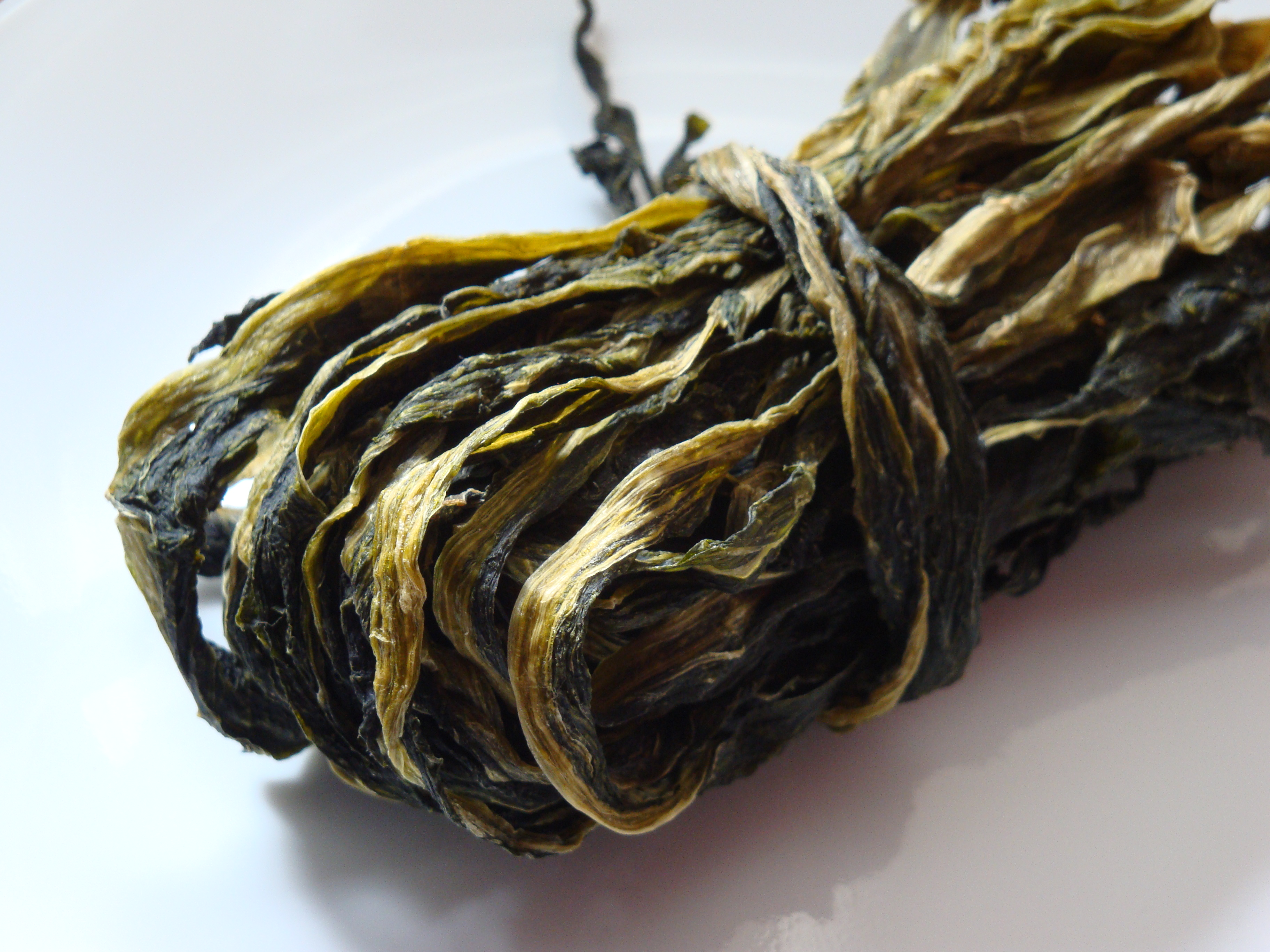 A bunch of meigan cai, 菜乾 tied into a bundle